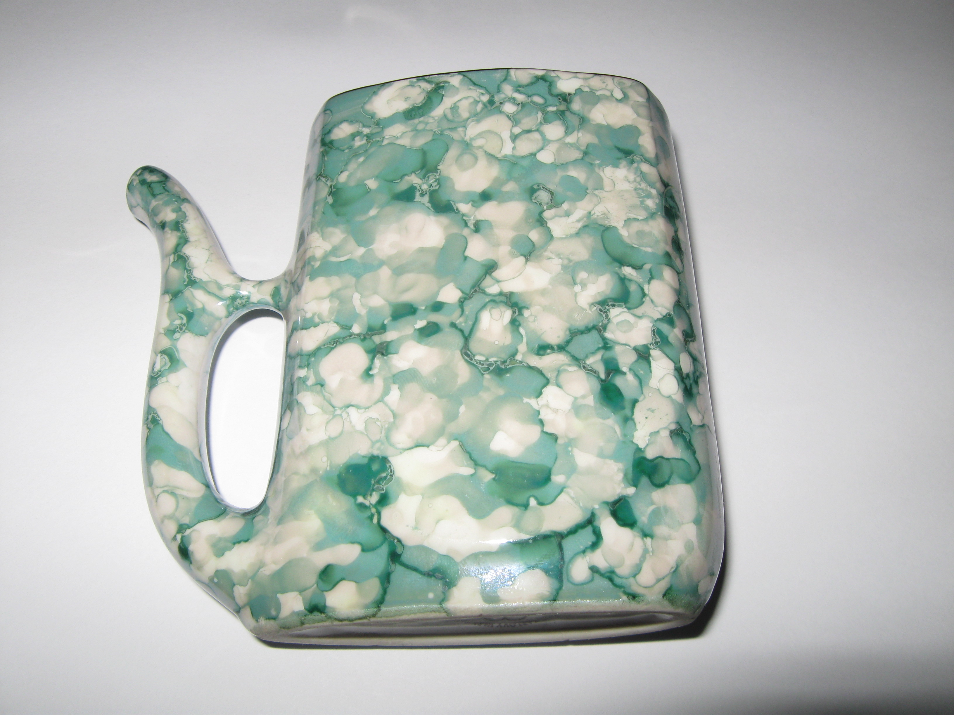 Karlovy Vary china vase with trunk, Czech Republic.